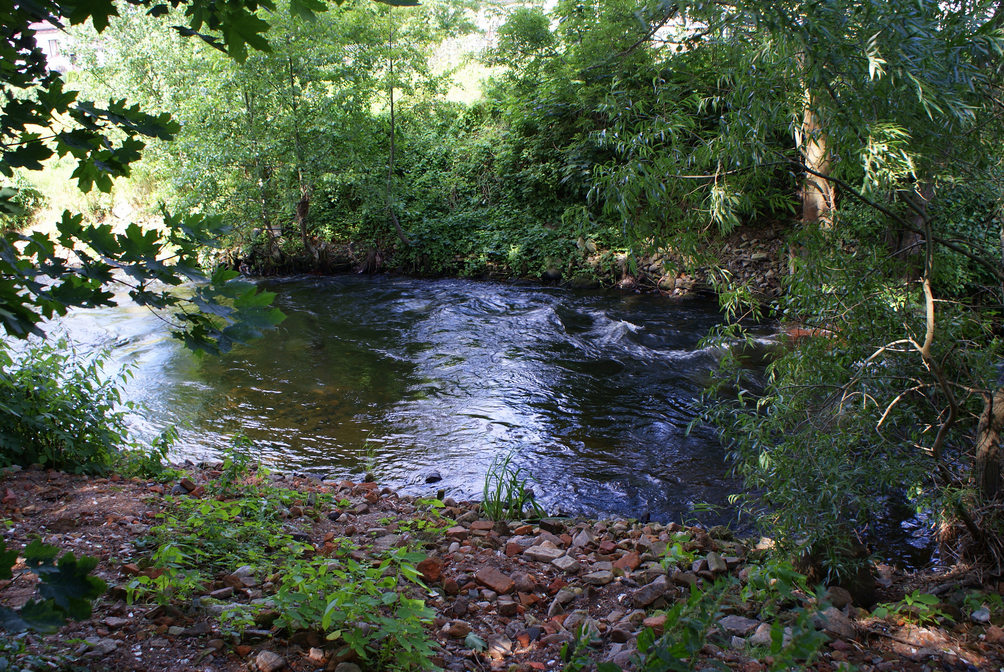 Młynówka anabranch of the Rega, from the side of north town walls in Trzebiatów, Poland